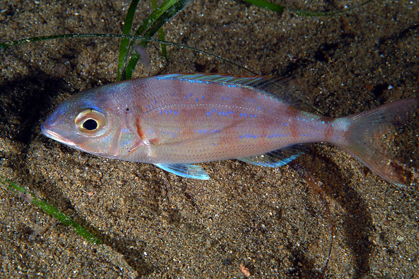 Pagellus Erythrinus photographed near Giglio island (Tuscany,Italy). Photo by Stefano Guerrieri.